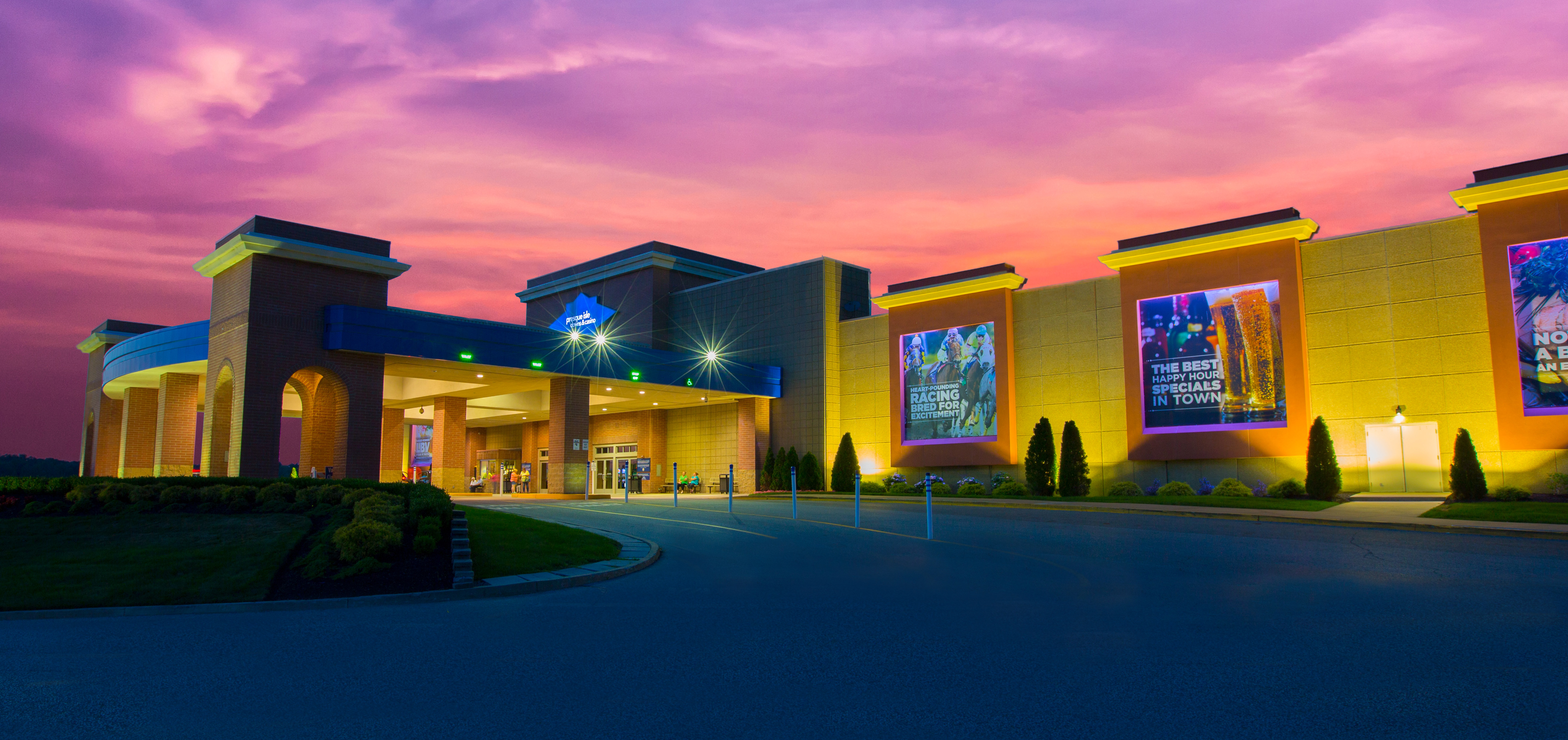 Presque Isle Downs and Casino: Open 24 hours a day, 365 days a year off of Interstate 90. 8199 Perry Highway Erie Pa featuring Slots, Horse racing, Table Games and a Complete Sports Book. Gambling Problem 1-800-GAMBLER